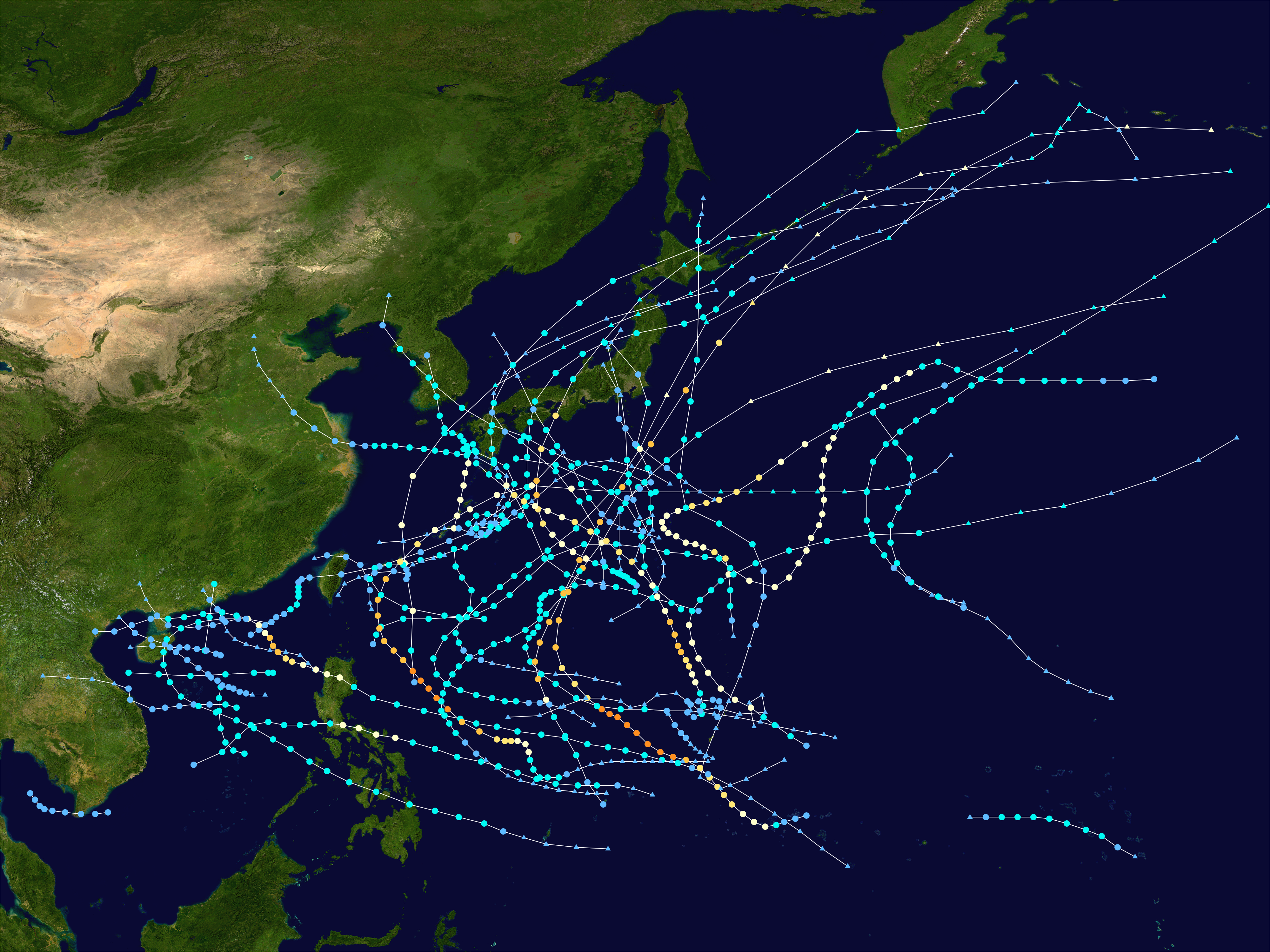 This map shows the tracks of all tropical cyclones in the 1950 Pacific typhoon season. The points show the location of each storm at 6-hour intervals. The colour represents the storm's maximum sustained wind speeds as classified in the Saffir-Simpson Hurricane Scale (see below), and the shape of the data points represent the type of the storm. Saffir–Simpson scale Tropical depression≤38 mph≤62 km/h Category 3111–129 mph178–208 km/h Tropical storm39–73 mph63–118 km/h Category 4130–156 mph209–251 km/h Category 174–95 mph119–153 km/h Category 5≥157 mph≥252 km/h Category 296–110 mph154–177 km/h Unknown Storm type Tropical cyclone Subtropical cyclone Extratropical cyclone / Remnant low / Tropical disturbance